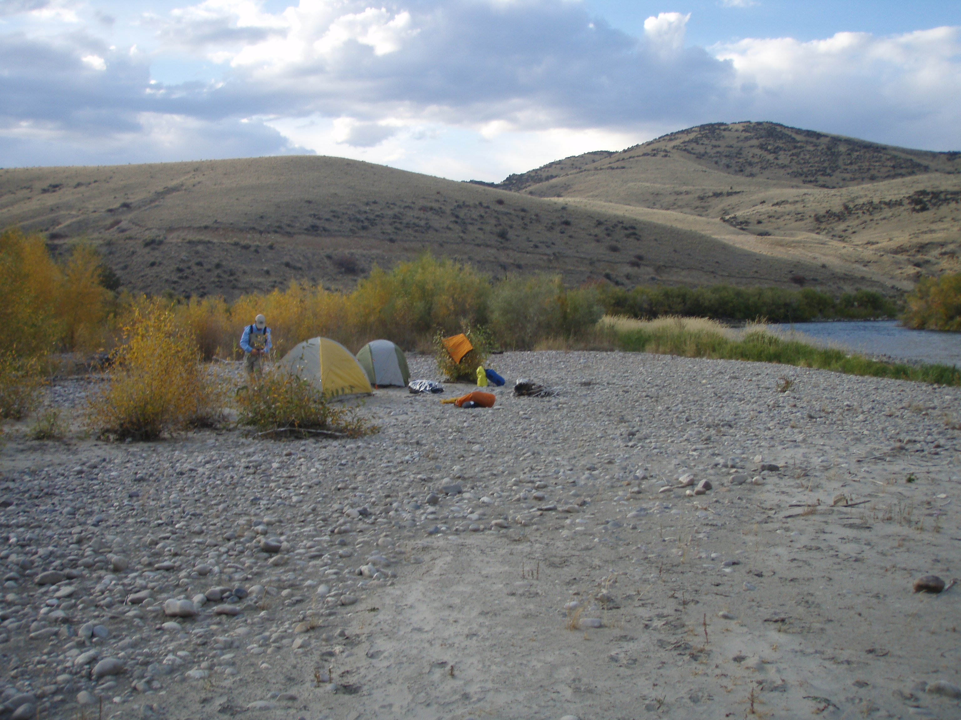 Camping on the Jefferson River, October 2008